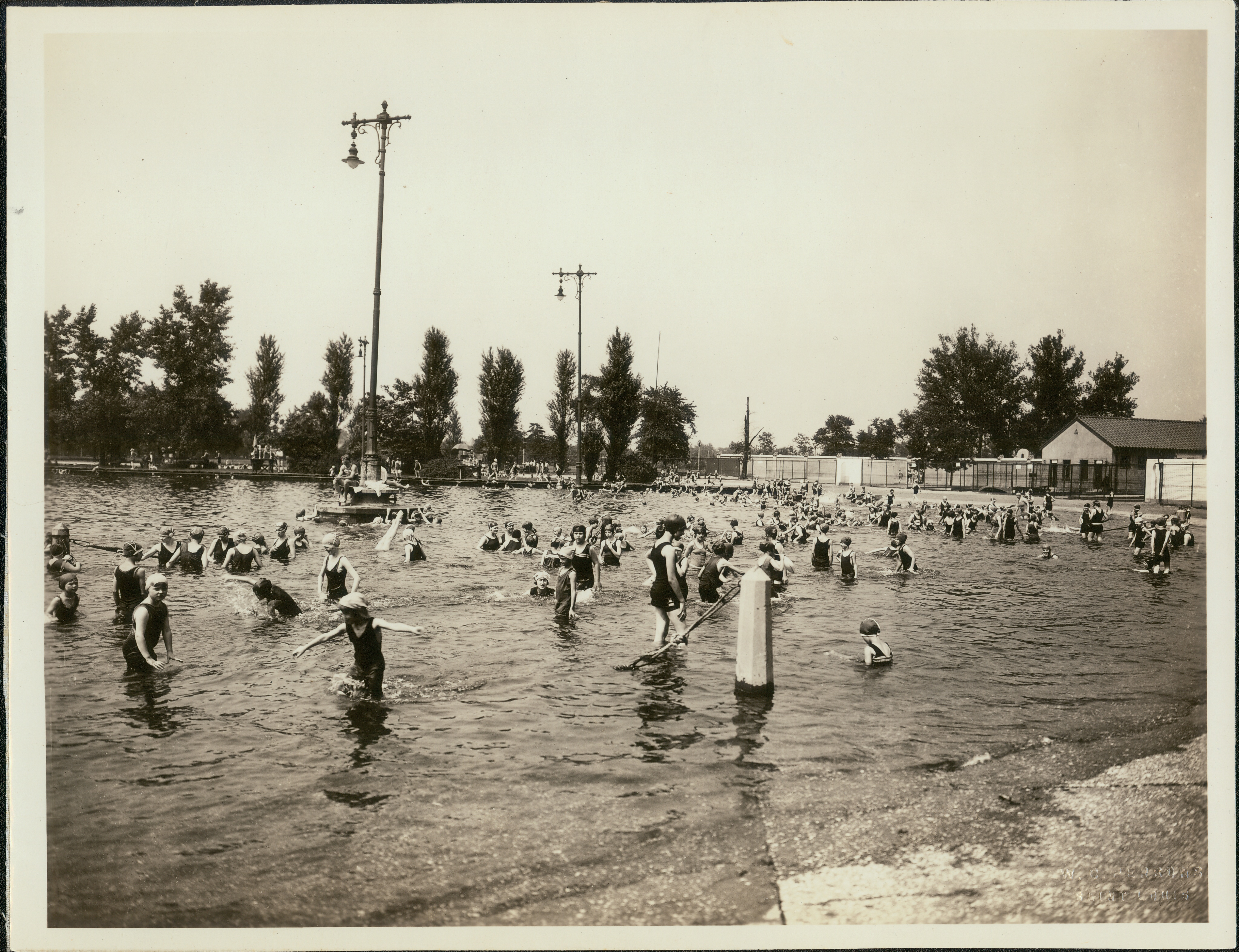 Swimmers at Fairgrounds Park swimming pool. Photograph by W.C. Persons, 1920s. Missouri History Museum Photographs and Prints Collection. NS 37637. Scan © 2008, Missouri History Museum.